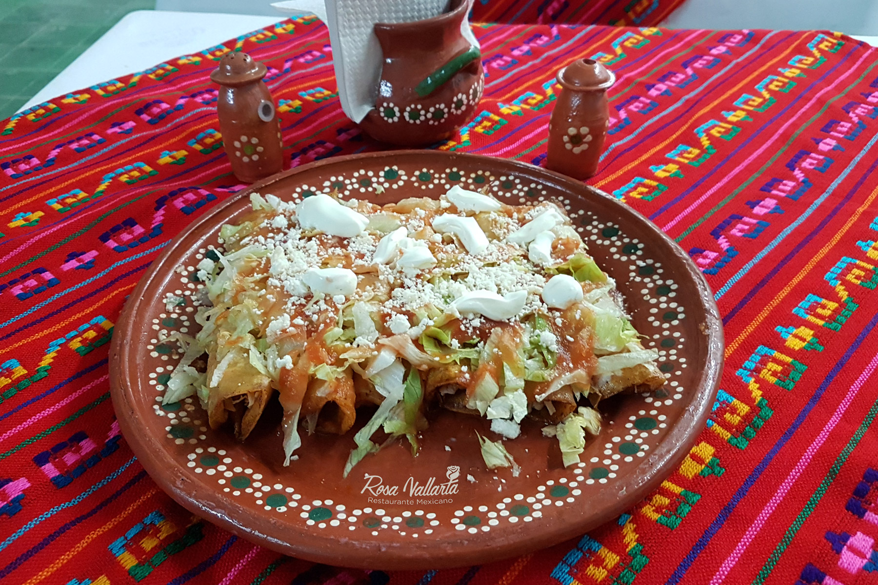 Enchiladas made with corn tortilla and guajillo sauce topped with lettuce, tomato sauce, cheese and sour cream.